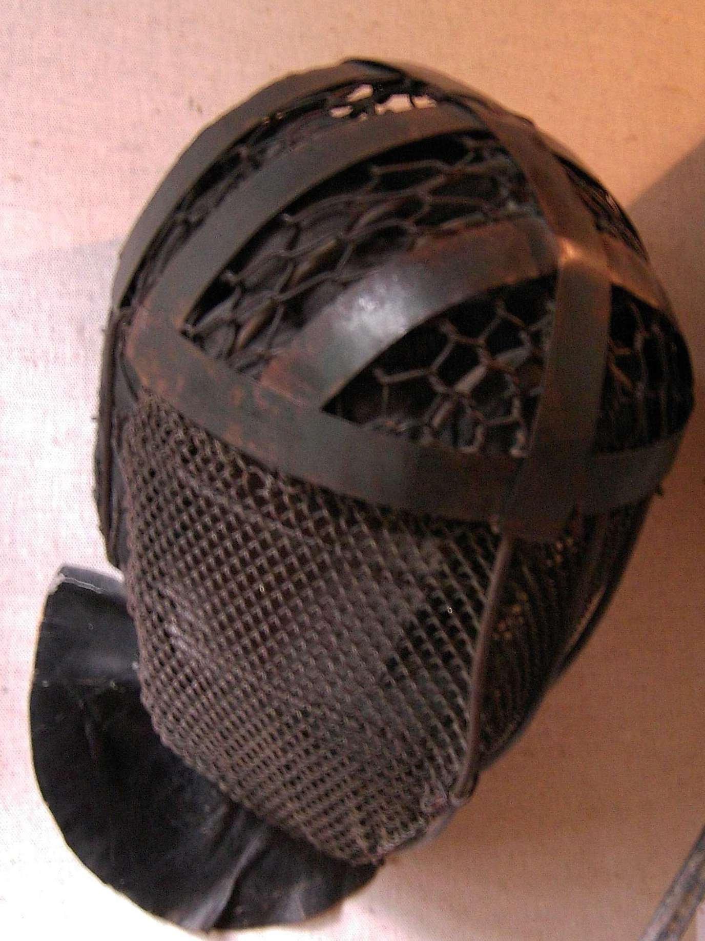 Göttingen, Stadtmuseum, duelling cap of student fraternity.